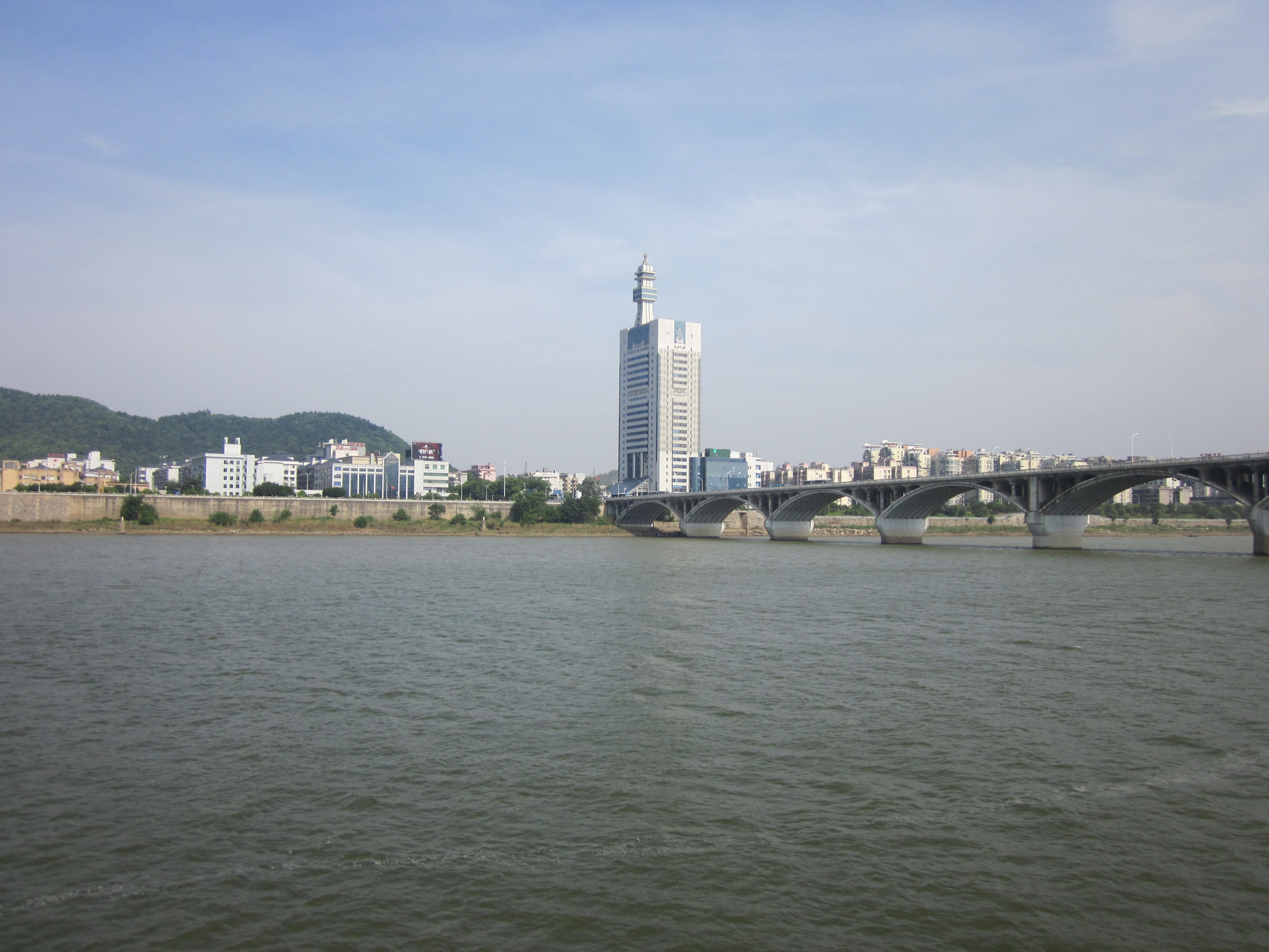 Xiangjiang River, one of the famous rivers in Changsha. The picture shows the Orange Island (Juzizhou) Bridge.